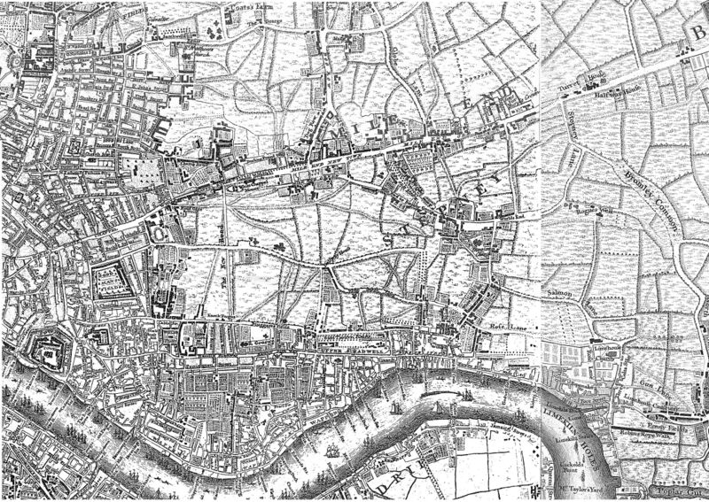 1745 Roque Historic map of the East End